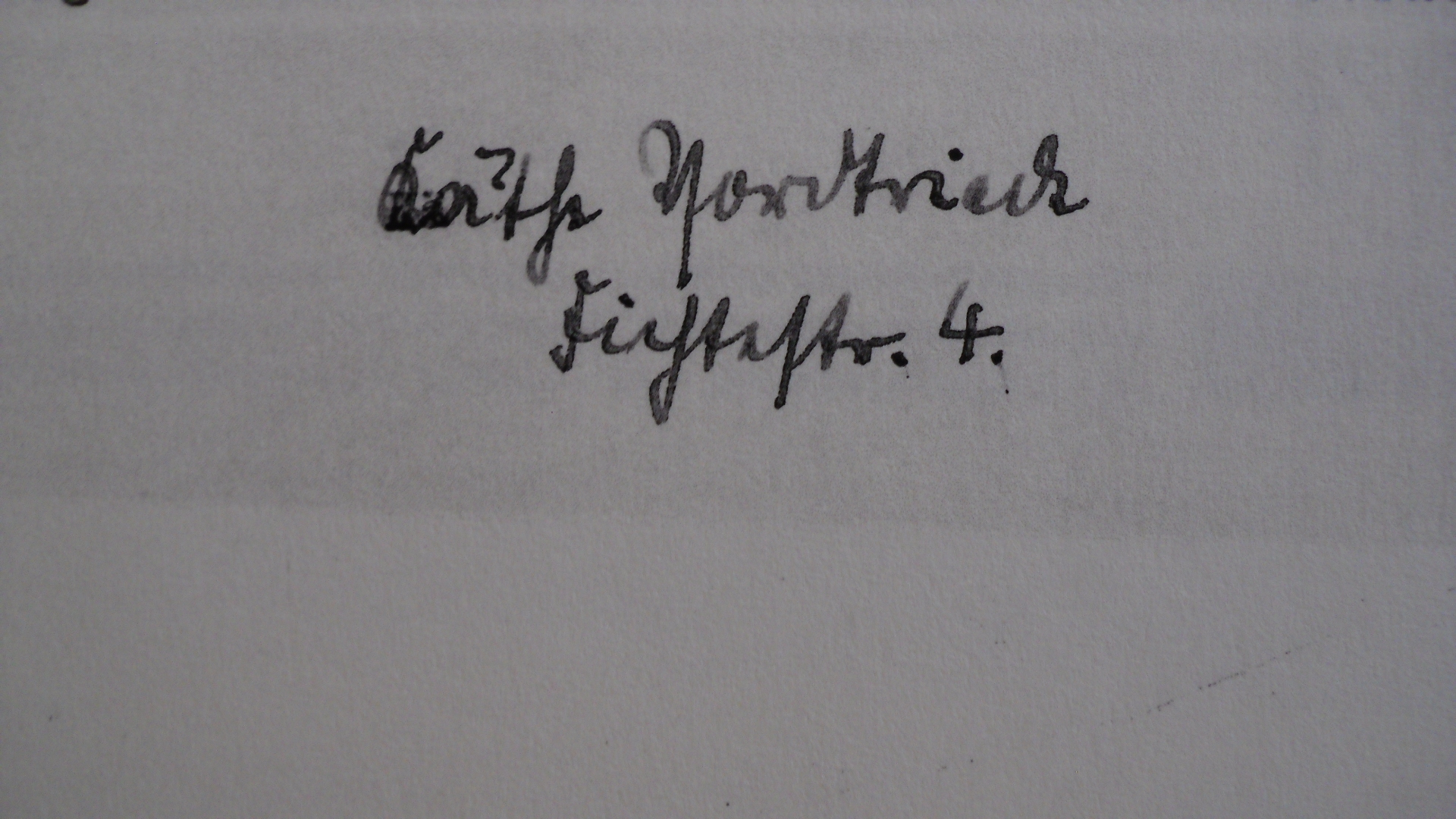 Handwritten signature of the Freiburg journalist Käthe Vordtriede from 1931.